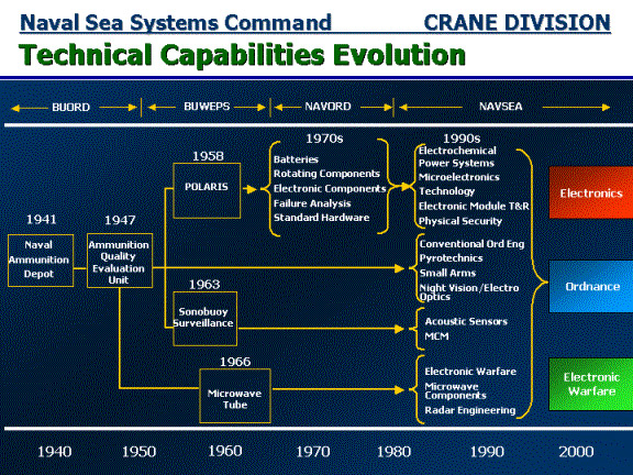 Chart showing evolution of technical capabilities over time at Naval Surface Warfare Center Crane Division. Source: [1] at [2]